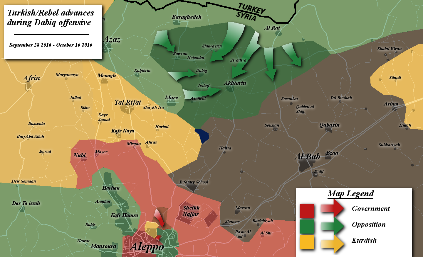 A simplified map of Turkish and rebel advancements during the Dabiq offensive. Created in gimp 2.8. Influenced by many maps from creators: MrPenguin20, PetoLucem, Edmaps Syria, and so on.